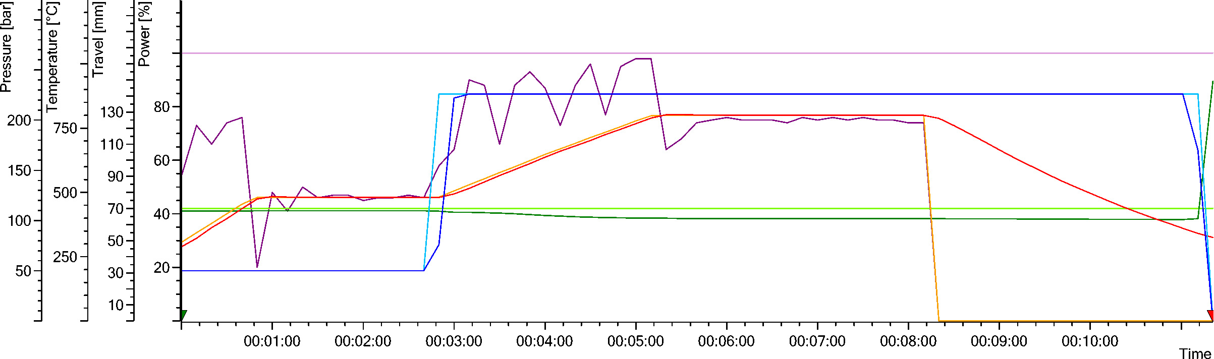 Direct Hotpressing process chart